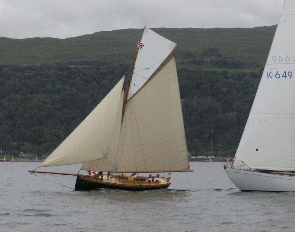 Ayrshire Lass 1887